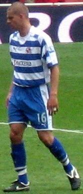 Ívar Ingimarsson. Image cropped from original at flickr.